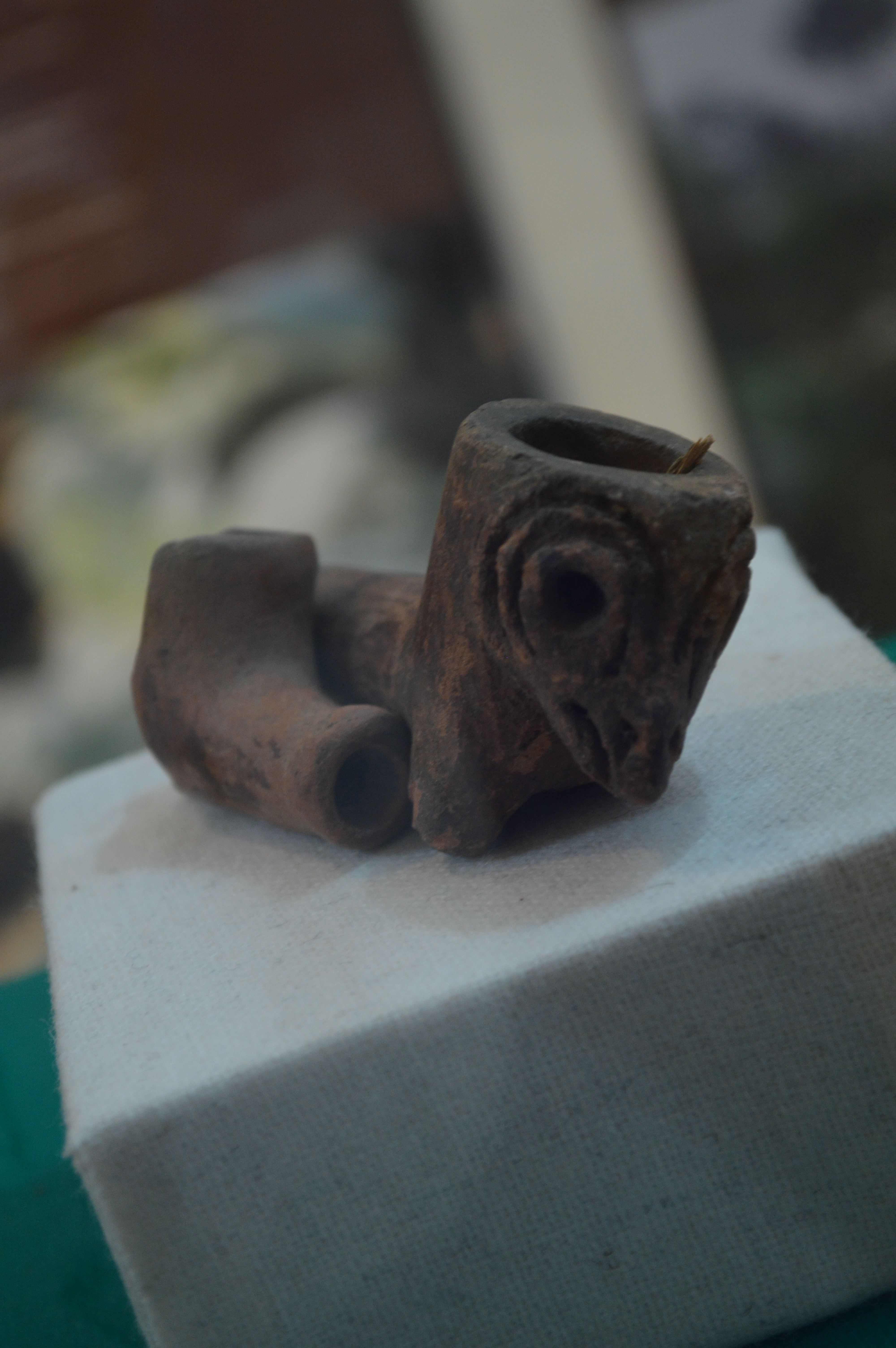 Pre Hispanic tobacco pipe on display at the Museo Regional de San Andres Tuxtla, Veracruz, Mexico